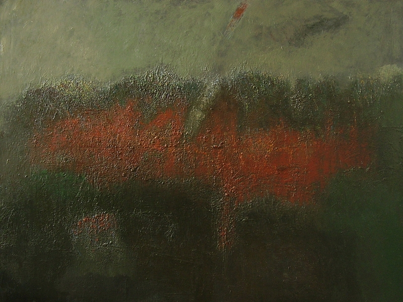 "Eruption", painting, oil on canvas, 1998. Zoran Rajković (1949). Painter from Serbia